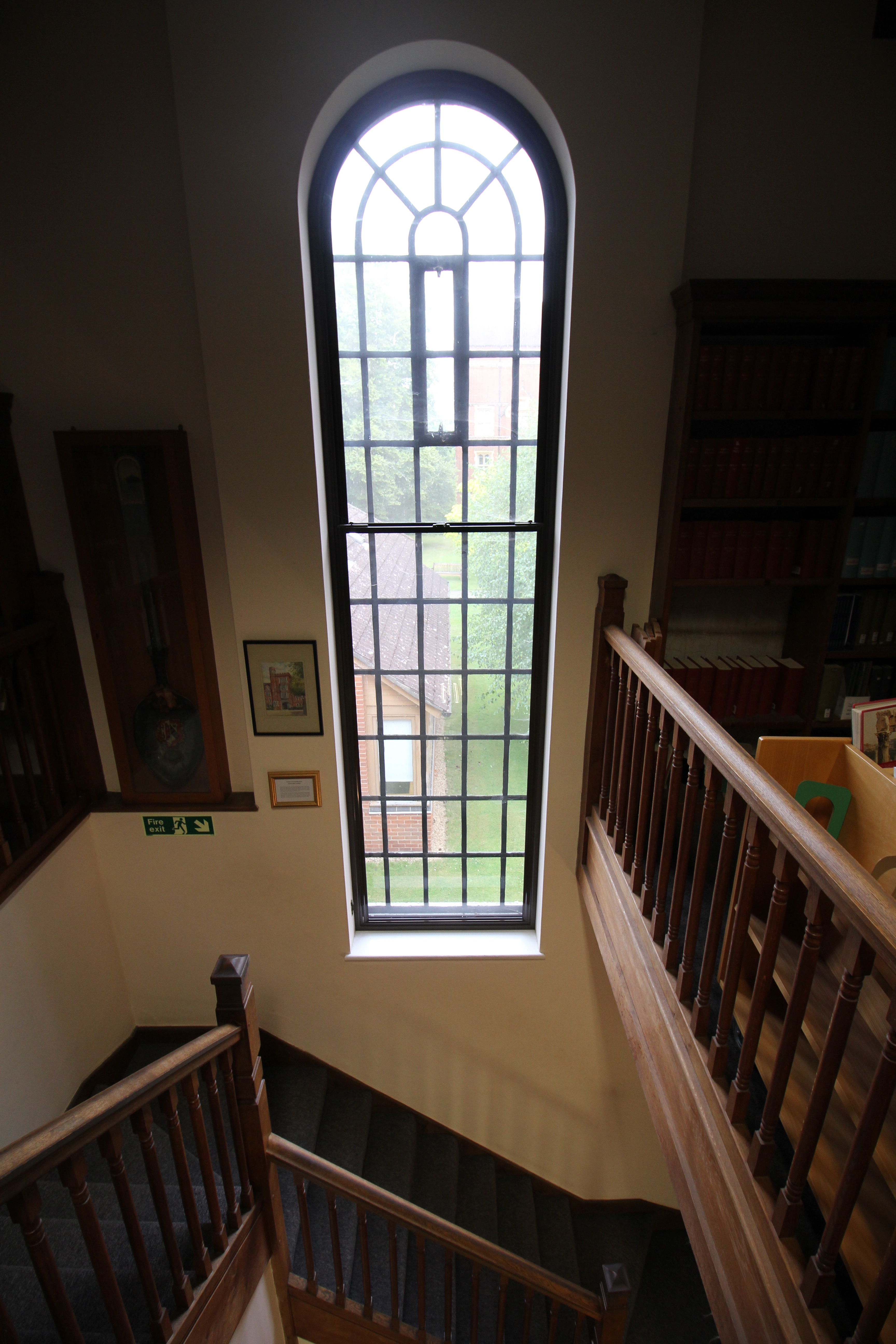 SelwynCollegeCambridge_Library_13